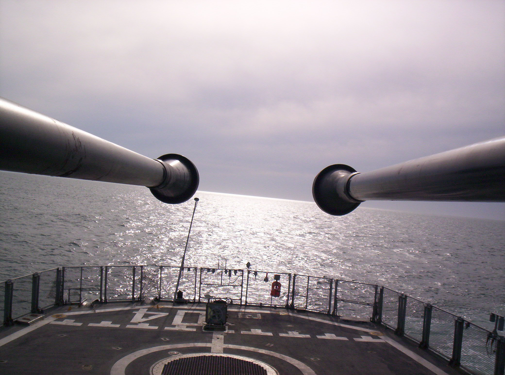 Popa Rou04 (Stern & helipad of the ROU 04 Gral. Artigas)